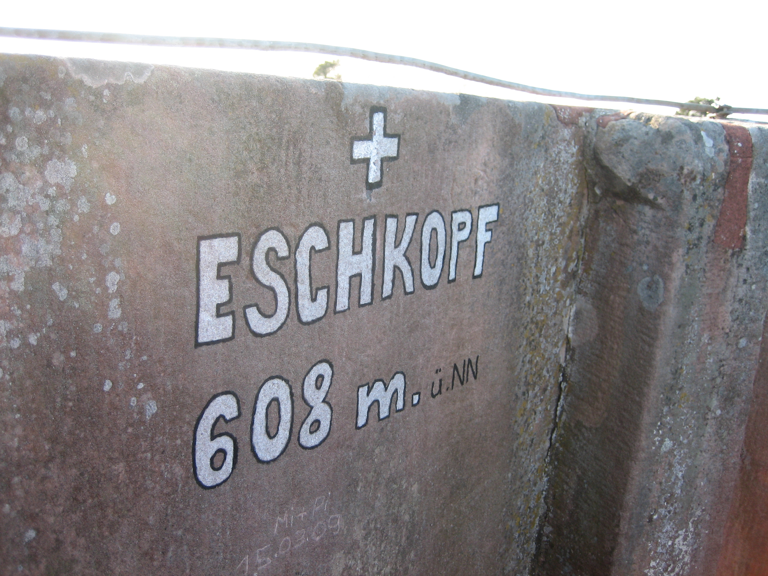 Inscription on the Eschkopf Tower, an observation tower at the summit of the Eschkopf in the Palatine Forest in the state of Rhineland-Palatine, Germany.